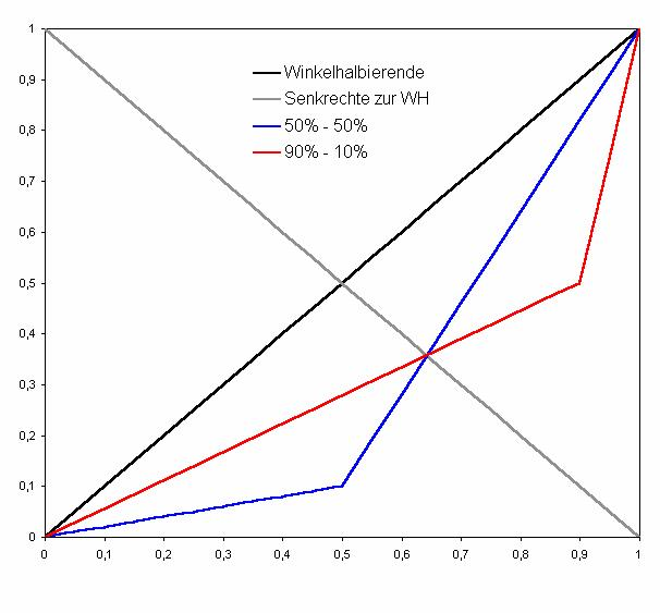 Same Gini coefficient for two Lorenz curves.